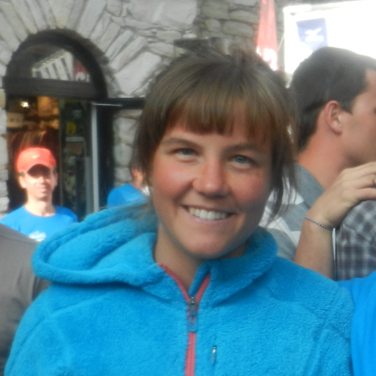 The champion of skyrunning and trail